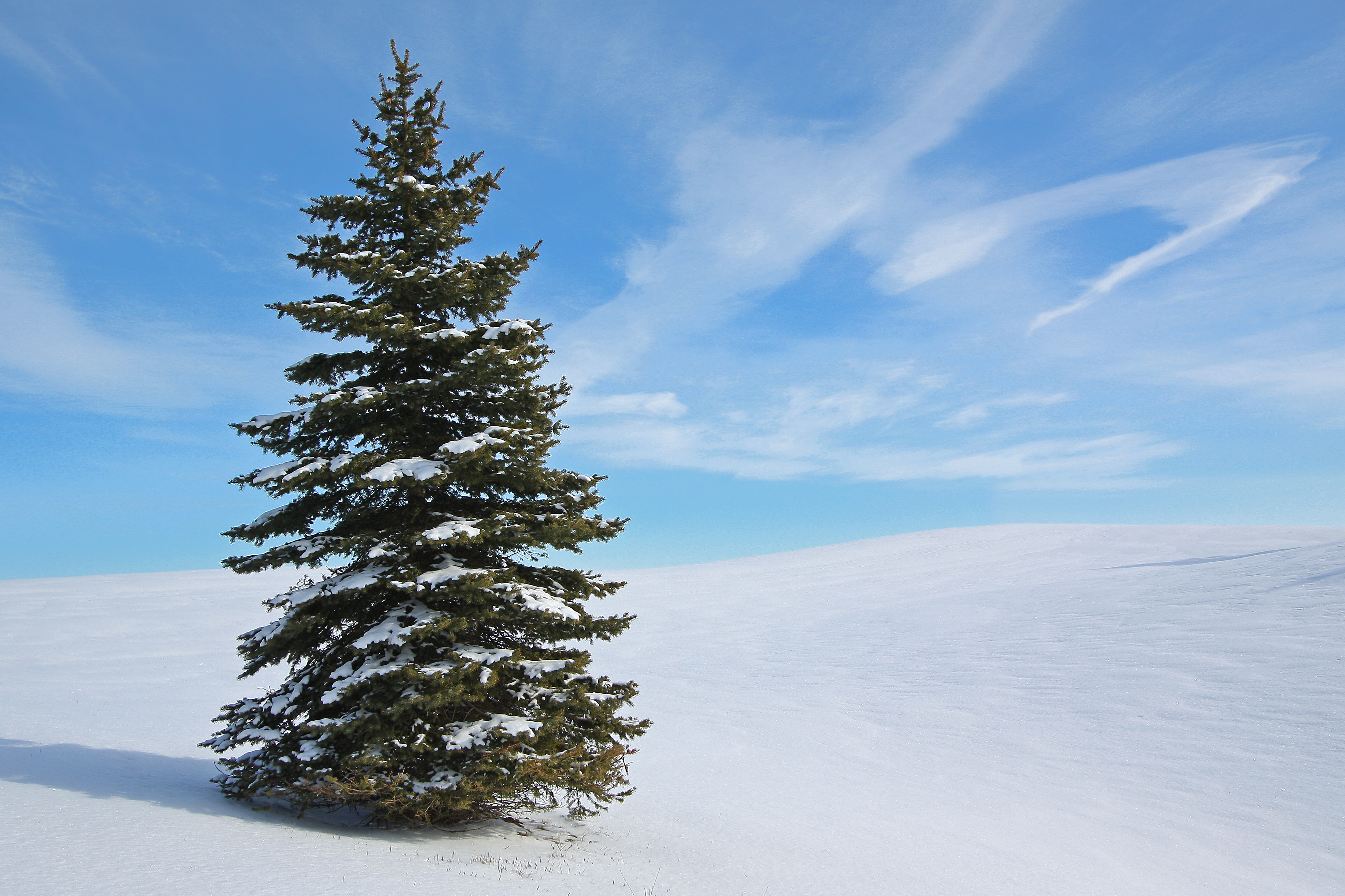 Along Escarpment Side Road North of Brampton. I haven't had many opportunities for nice snow scenes this year, so I dug this discarded photo out of the archives. After photoshopping out a couple of smaller trees on the horizon, and tweaking the lighting and levels, it's not too bad.